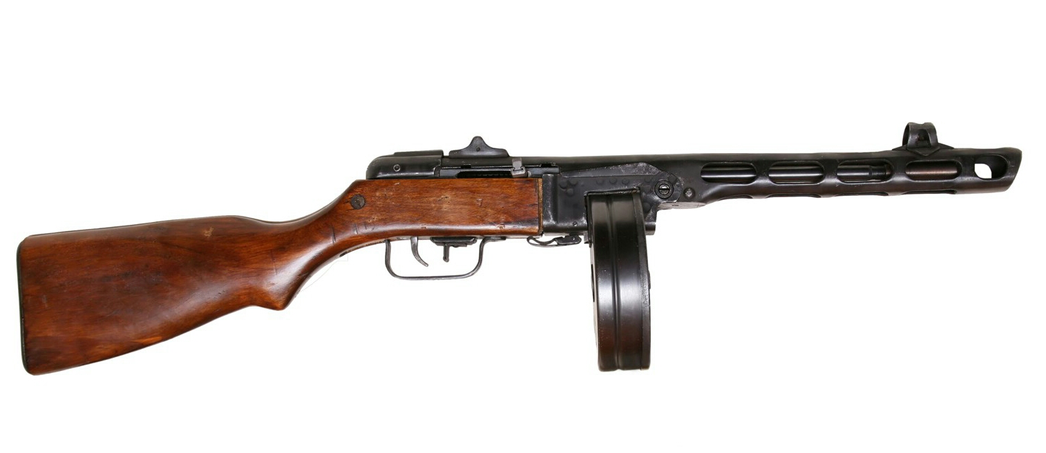 Soviet army ppsh 41